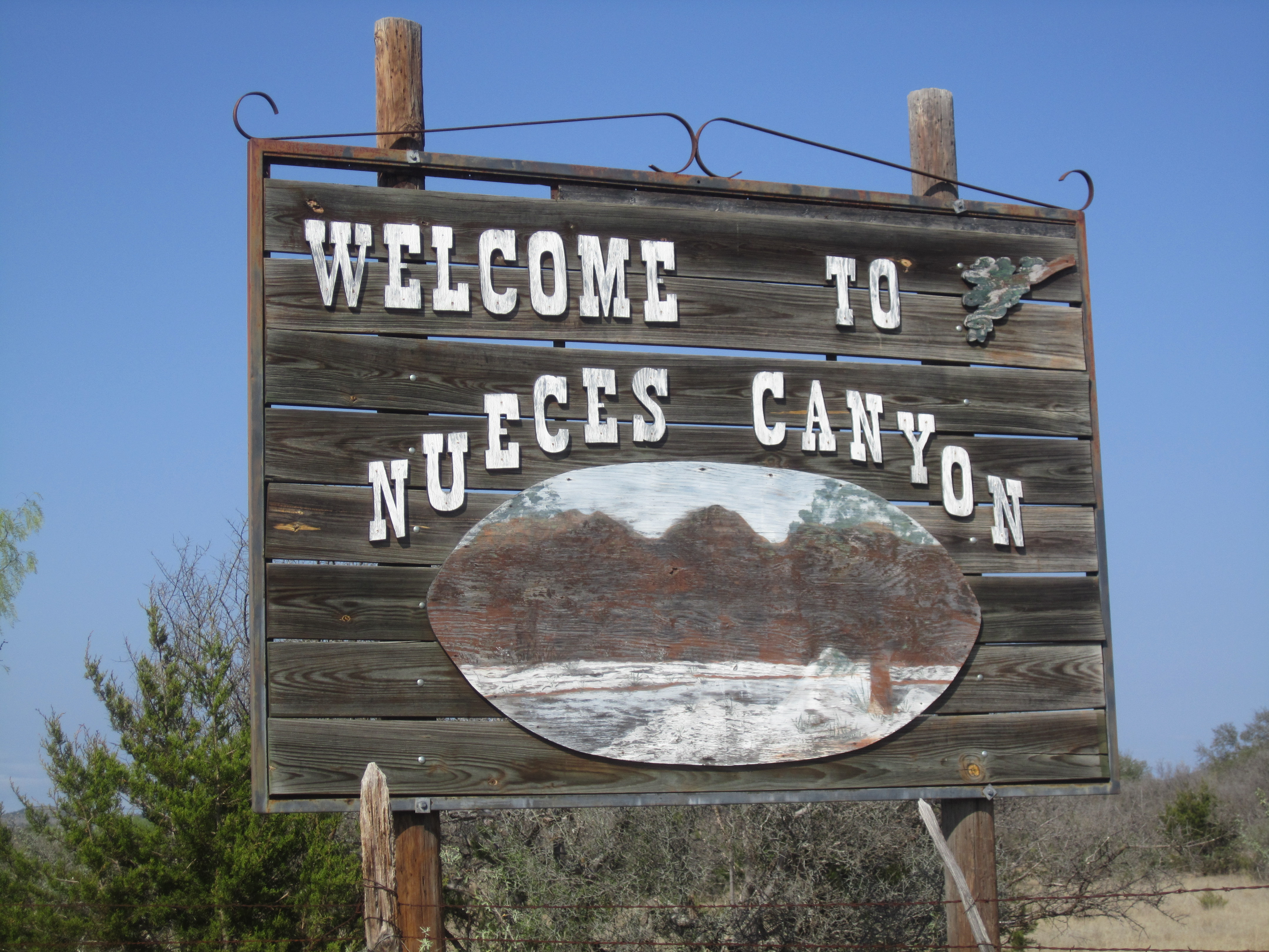 I took photo with Canon camera in Real County, TX.